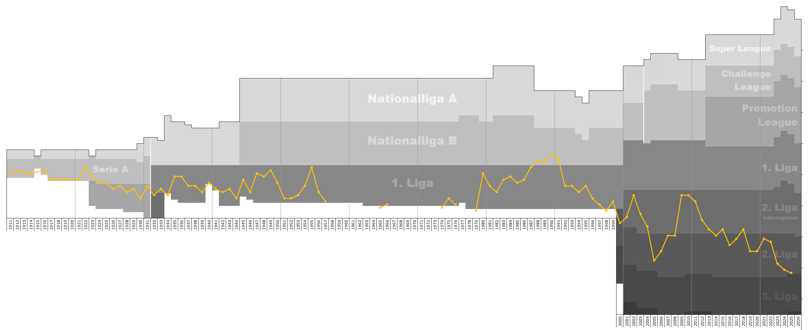 Chart of end-season table positions of FC Montreux-Sports in the Swiss football league system. Data source: RSSSF, , football.ch